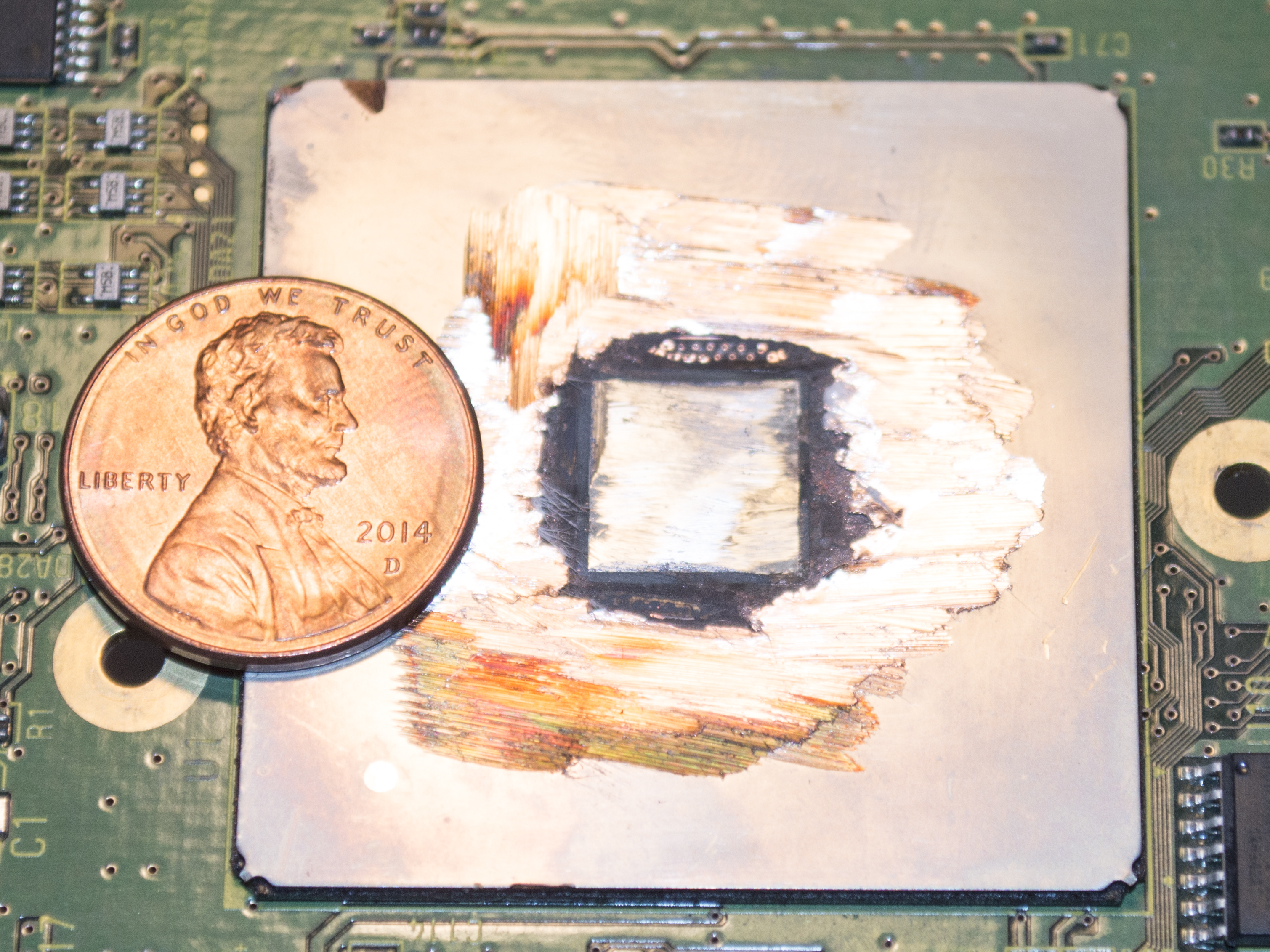 The 180nm ATI built "Flipper" GPU of the Nintendo GameCube shaven down to expose the silicon die.